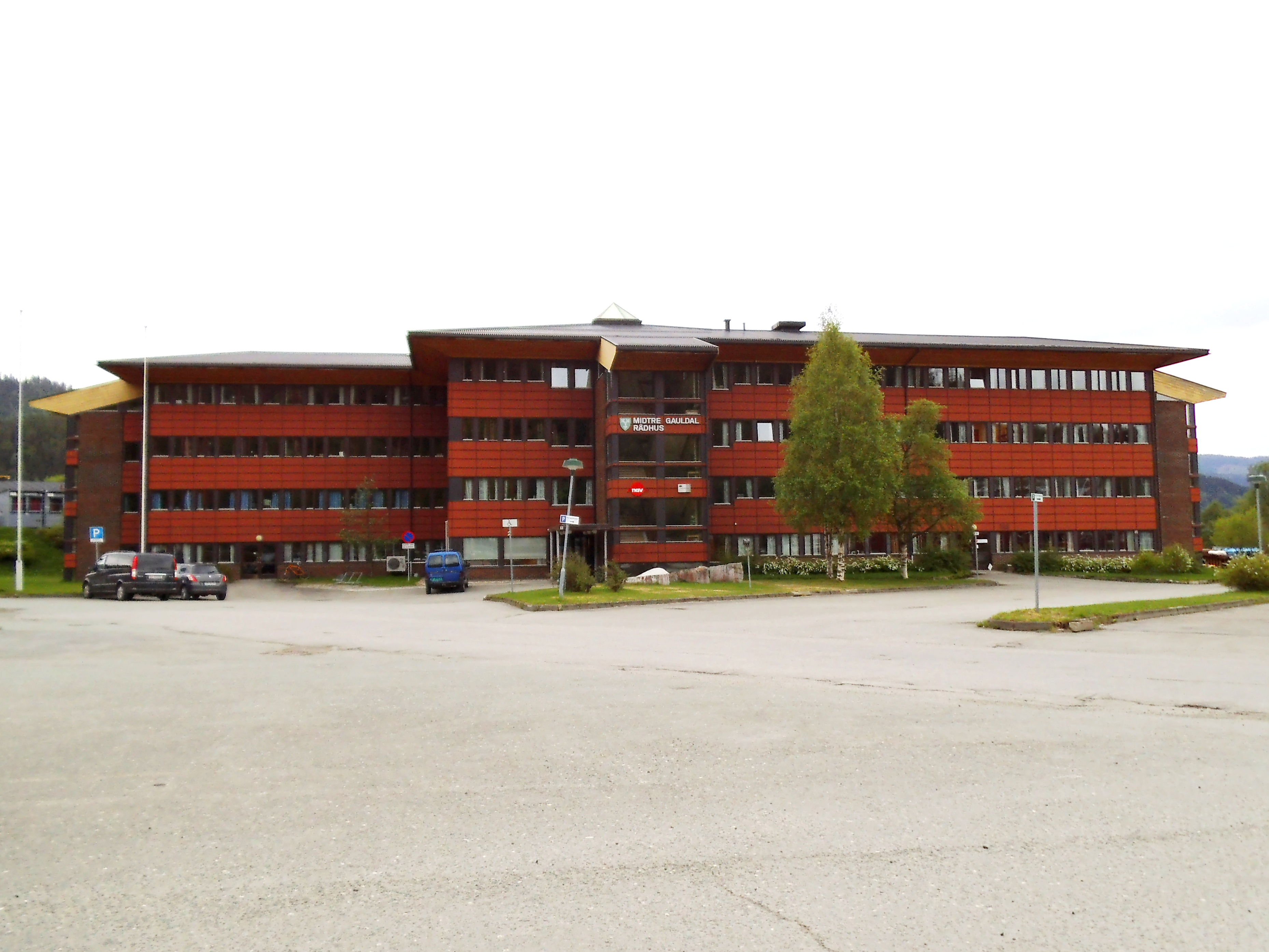 The town hall of Midtre Gauldal. Locaded in Støren.